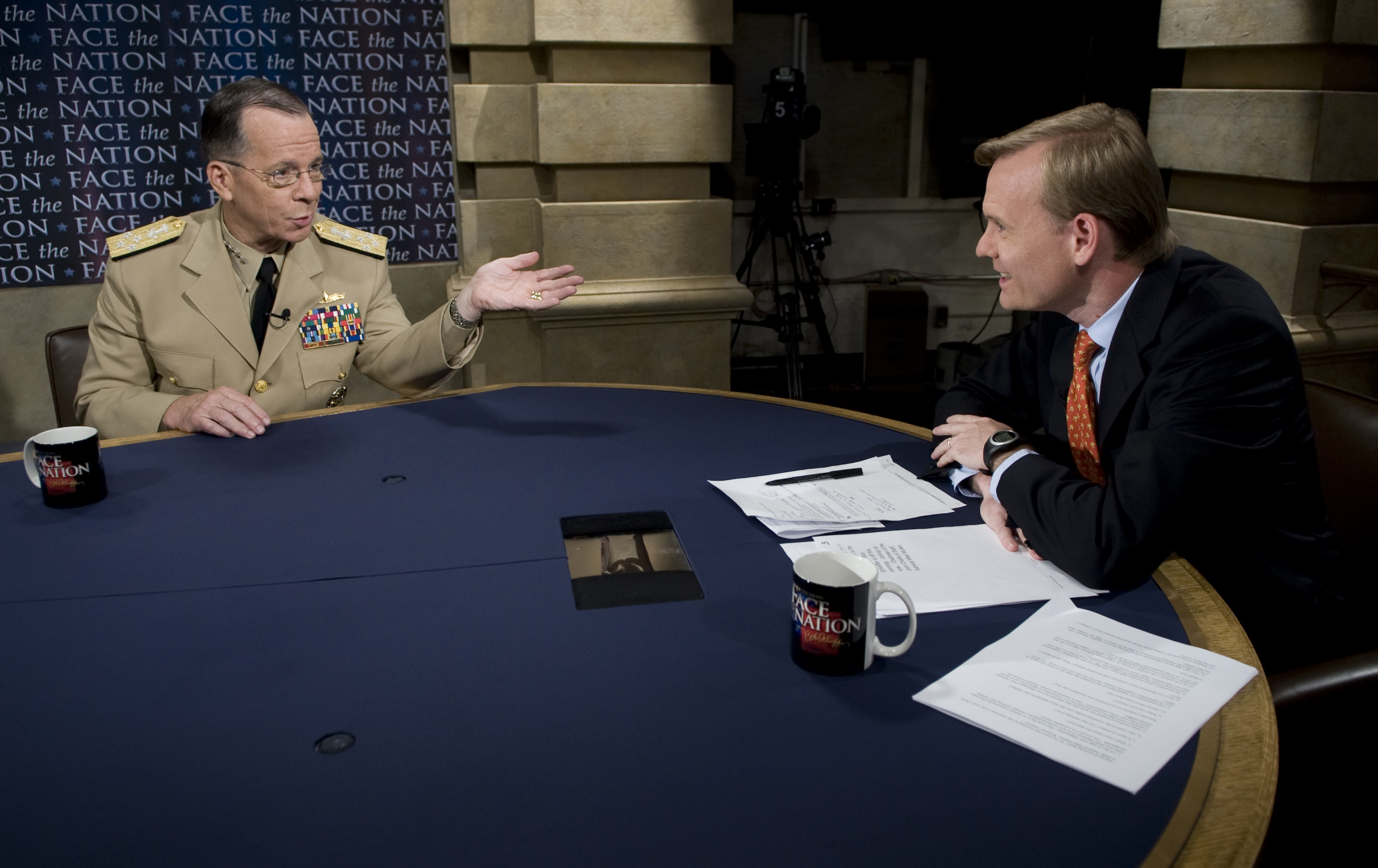 Chairman of the Joint Chiefs of Staff Navy Adm. Mike Mullen gives an interview to John Dickerson during the CBS news program Face the Nation in Washington, D.C., July 5, 2009. During the interview, Mullen discussed the wars in Iraq and Afghanistan, North Korea's recent missile tests and his recent visit to Russia.